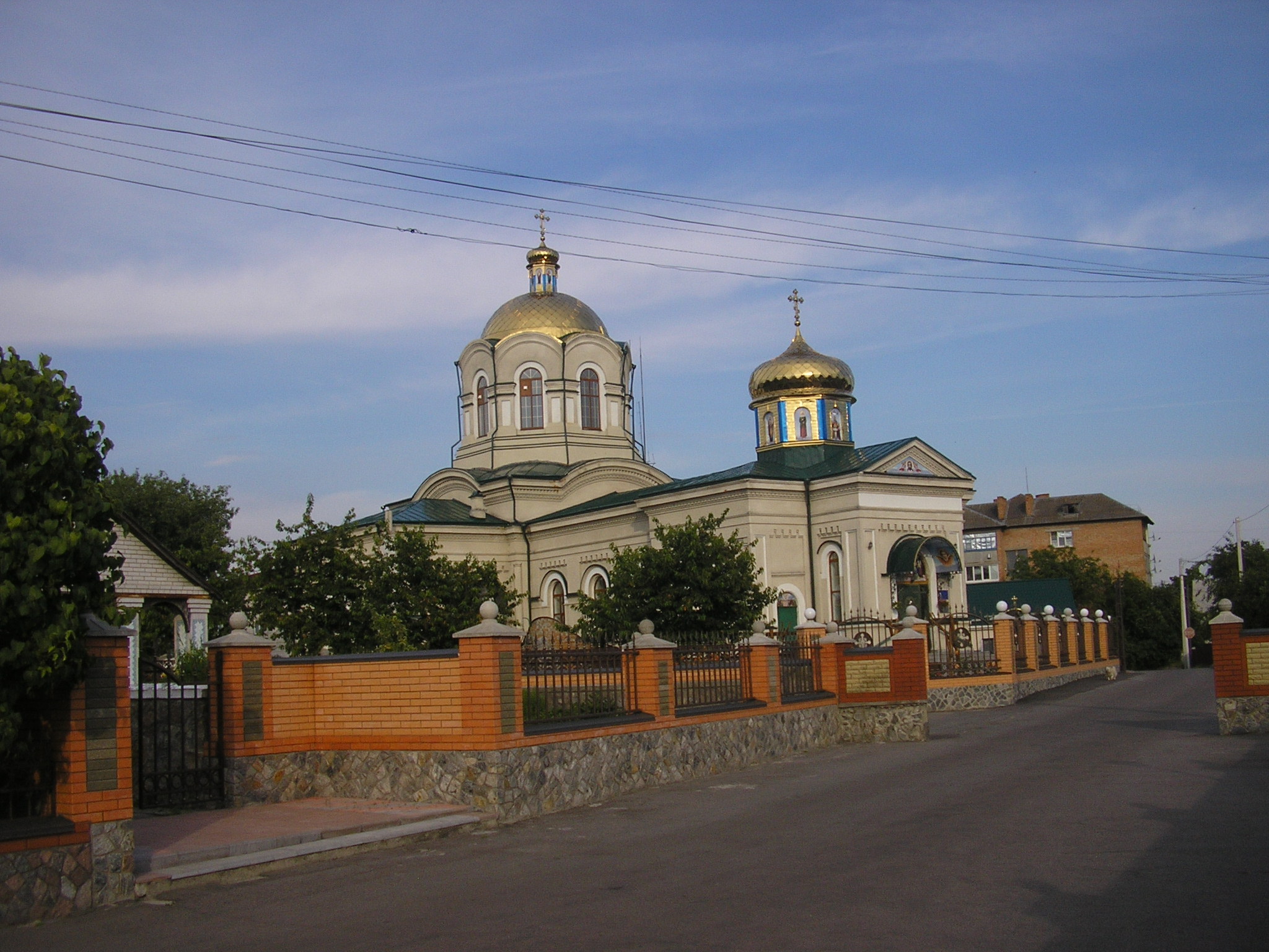 Rokytno Kyiv region